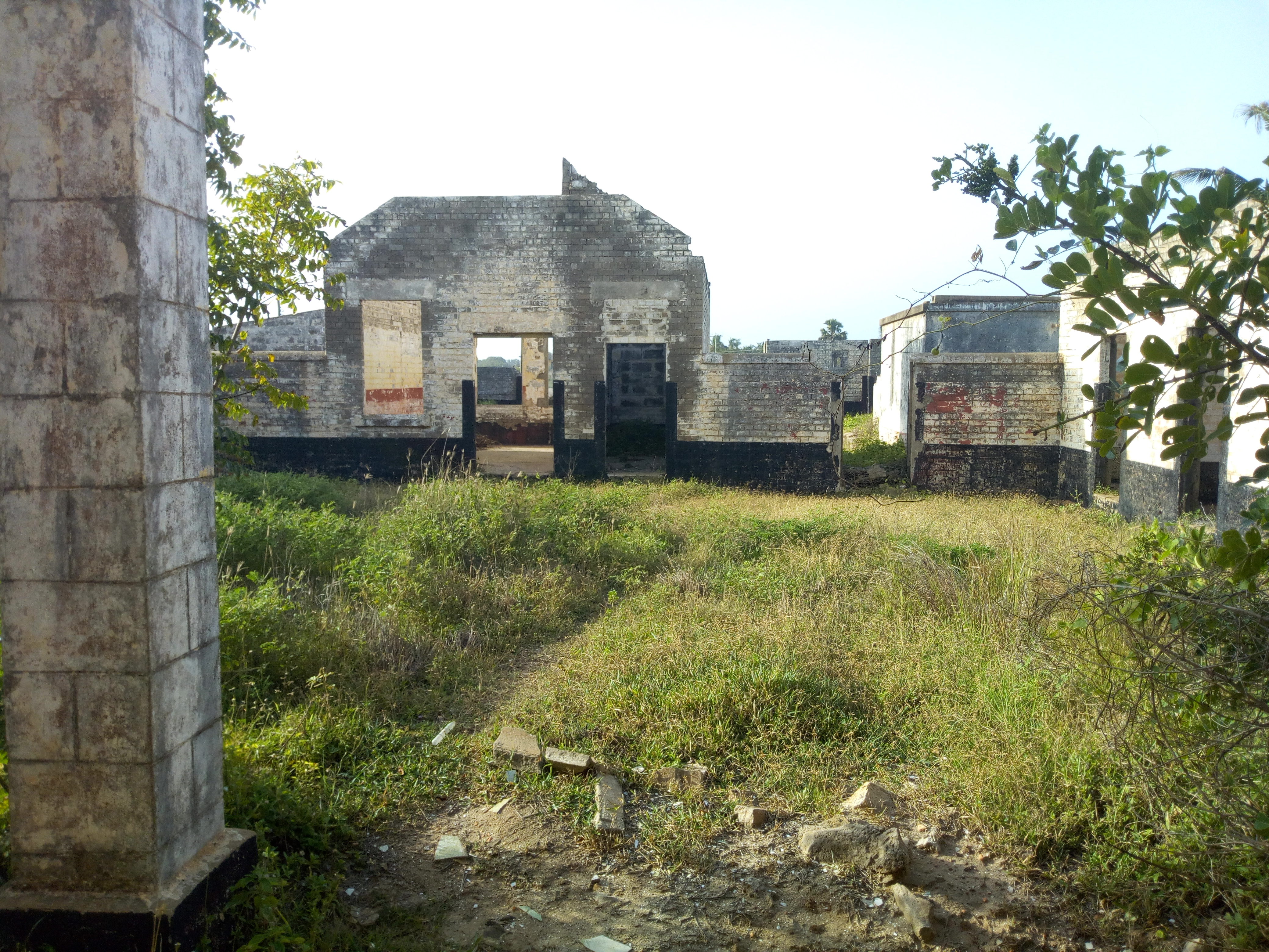 Enclosed court